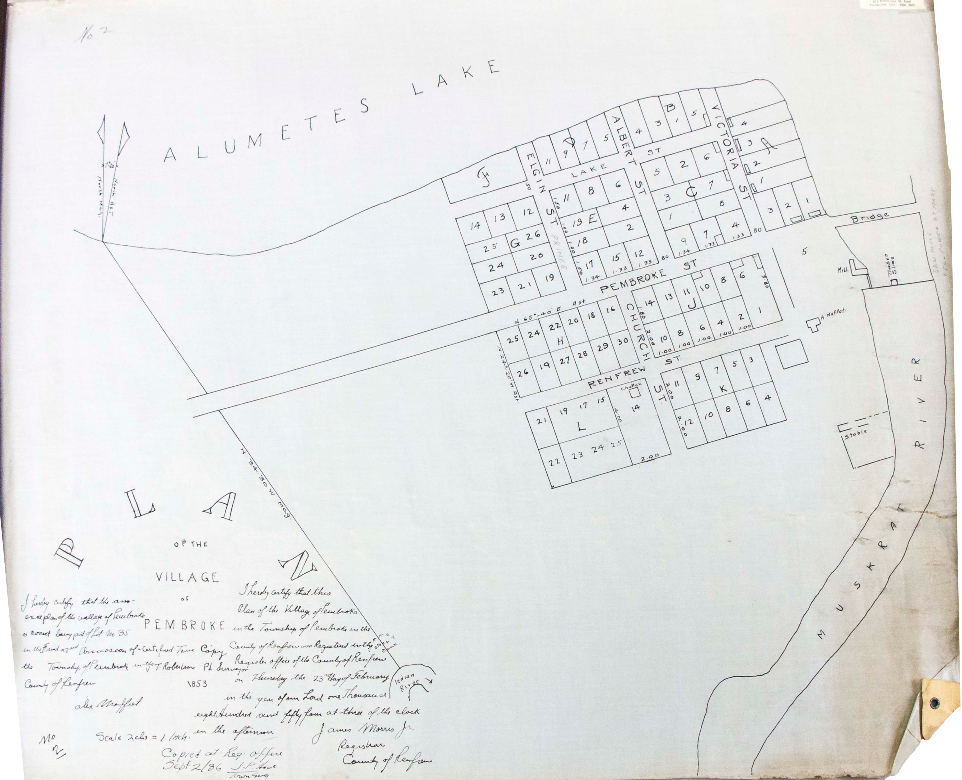 Original map of the Village of Pembroke, Ontario in 1853. This map is stored at the Champlain Trail Museum.